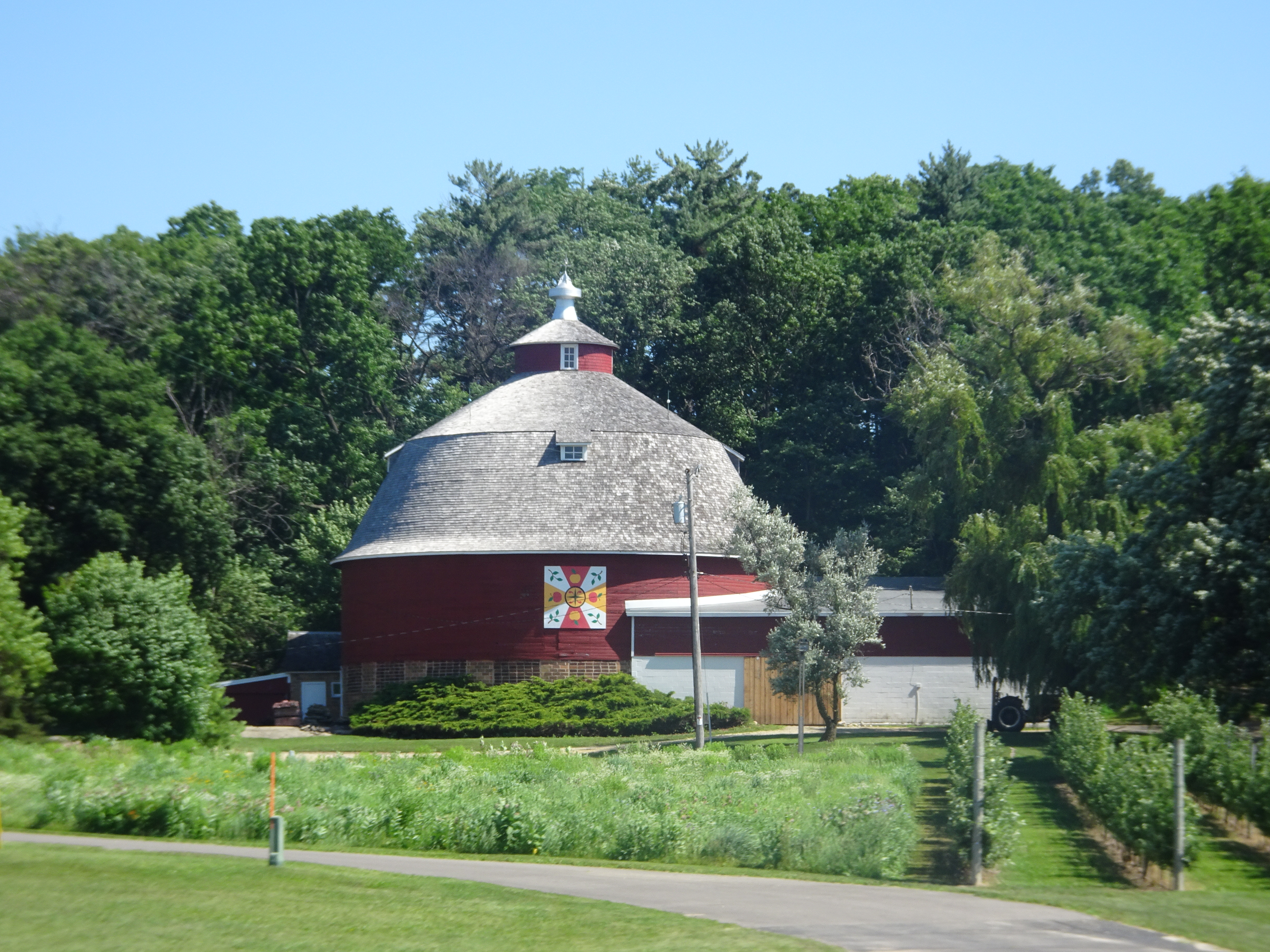 The Albert and Minna Ten Eyck Round Barn at Ten Eyck Orchard in Spring Grove, Wisconsin.